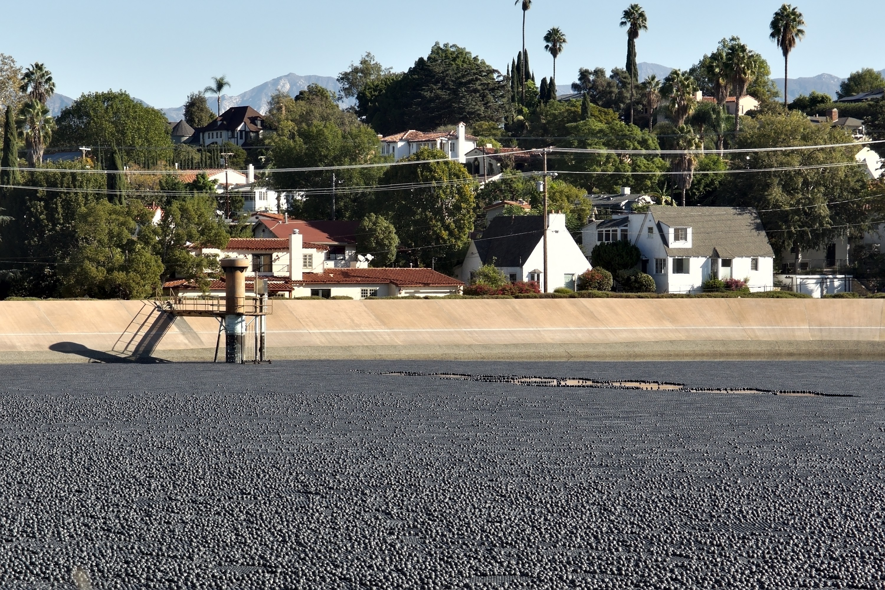 The Ivanhoe Reservoir after the addition of "shade balls", looking northeast from west side, showing outlet tower.